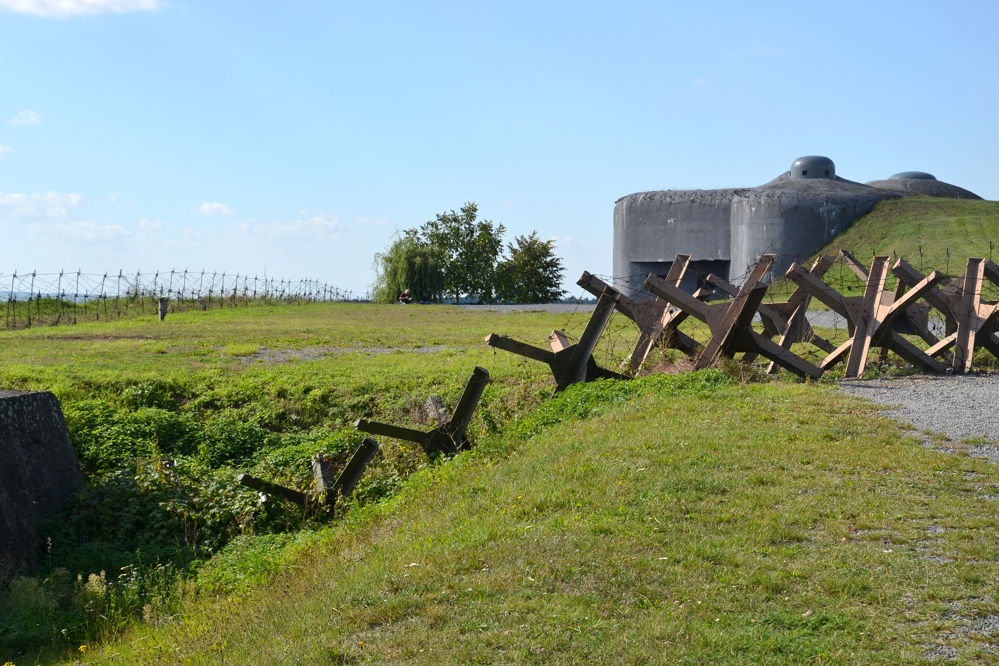 MO S-19 Alej casemate, Museum of the fortifications in Hlučín, Czech Silesia